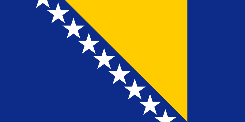 A re-upload of the re-upload. sorry!